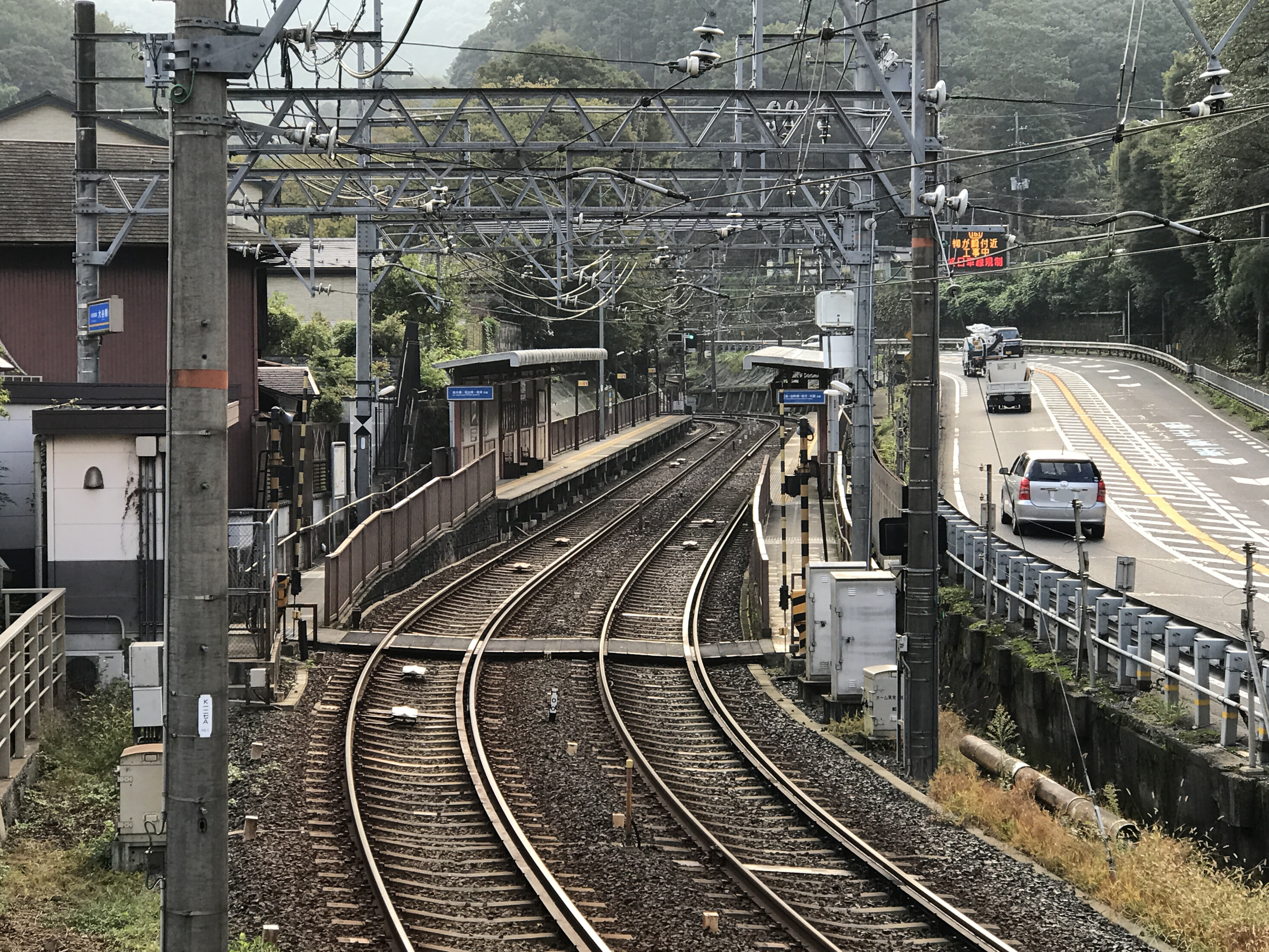 Otani station overview. The station locate at the top of "Osaka goe" summit and next to the Japanese route 1.